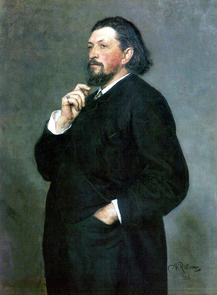 Portrait of music editor and patron Mitrofan Petrovich Belyayev